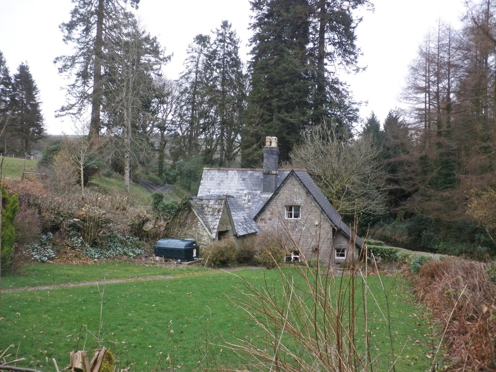 Former lodge, Northmoor